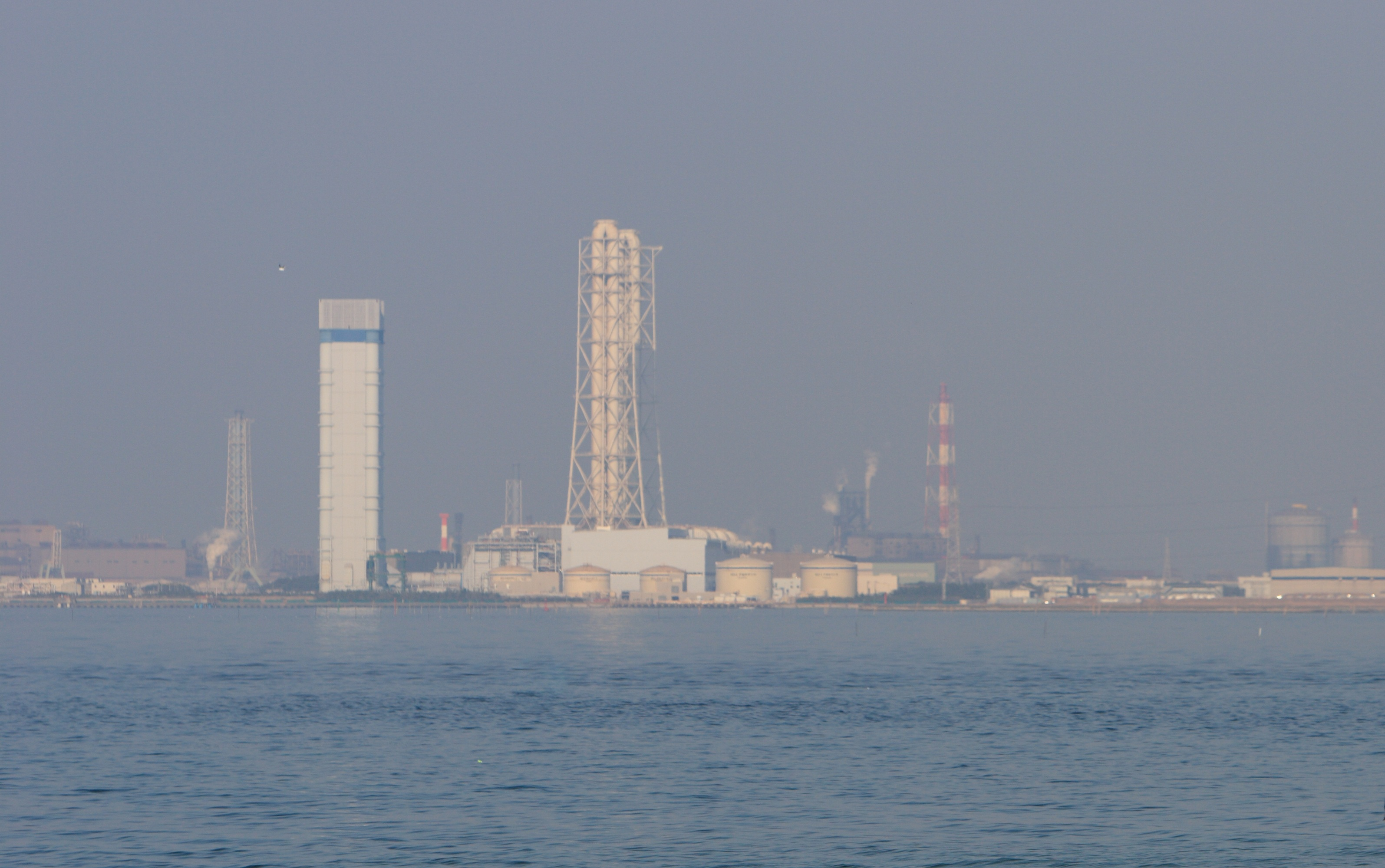 The Futtsu Power Station, in Futtsu, Chiba Prefecture, Japan.